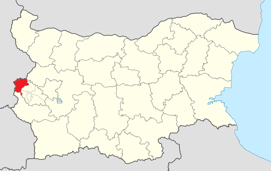 Location map of Tran Municipality within Bulgaria and Pernik province